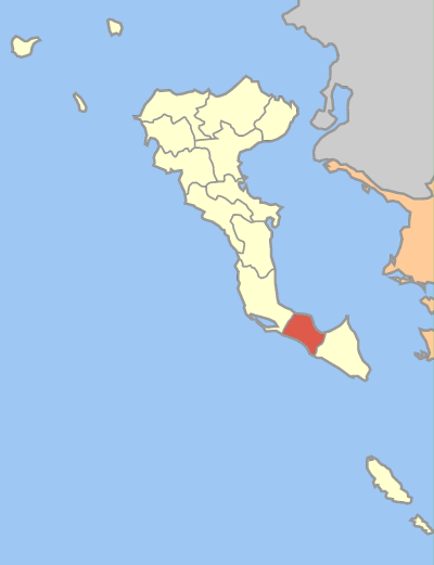 Locator map of Korissia municipality (Δήμος Κορισσίων) in Corfu prefecture (Νομός Κέρκυρας) in Greece.